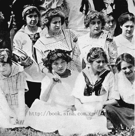 1913 Soong May-ling with primary schoolmates in USA.